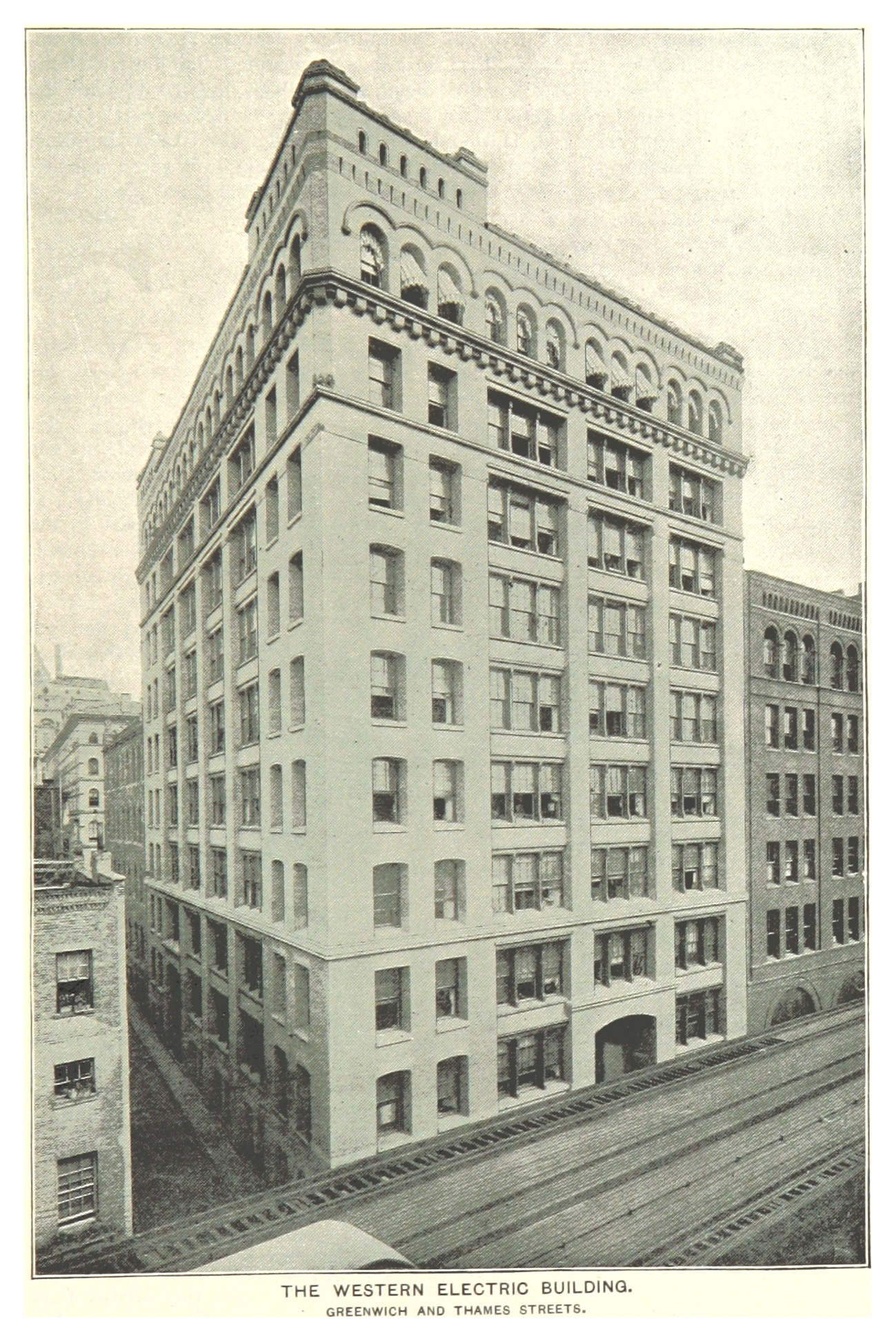 127-131 Greenwich Street (aka 22 Thames Street) (Cyrus L.W. Eidlitz, architect). King’s Handbook mentioned that this facility “turns out the smaller electrical instruments, such as telephones and transmitters, telegraph and testing instruments, annunciators and call-bells""